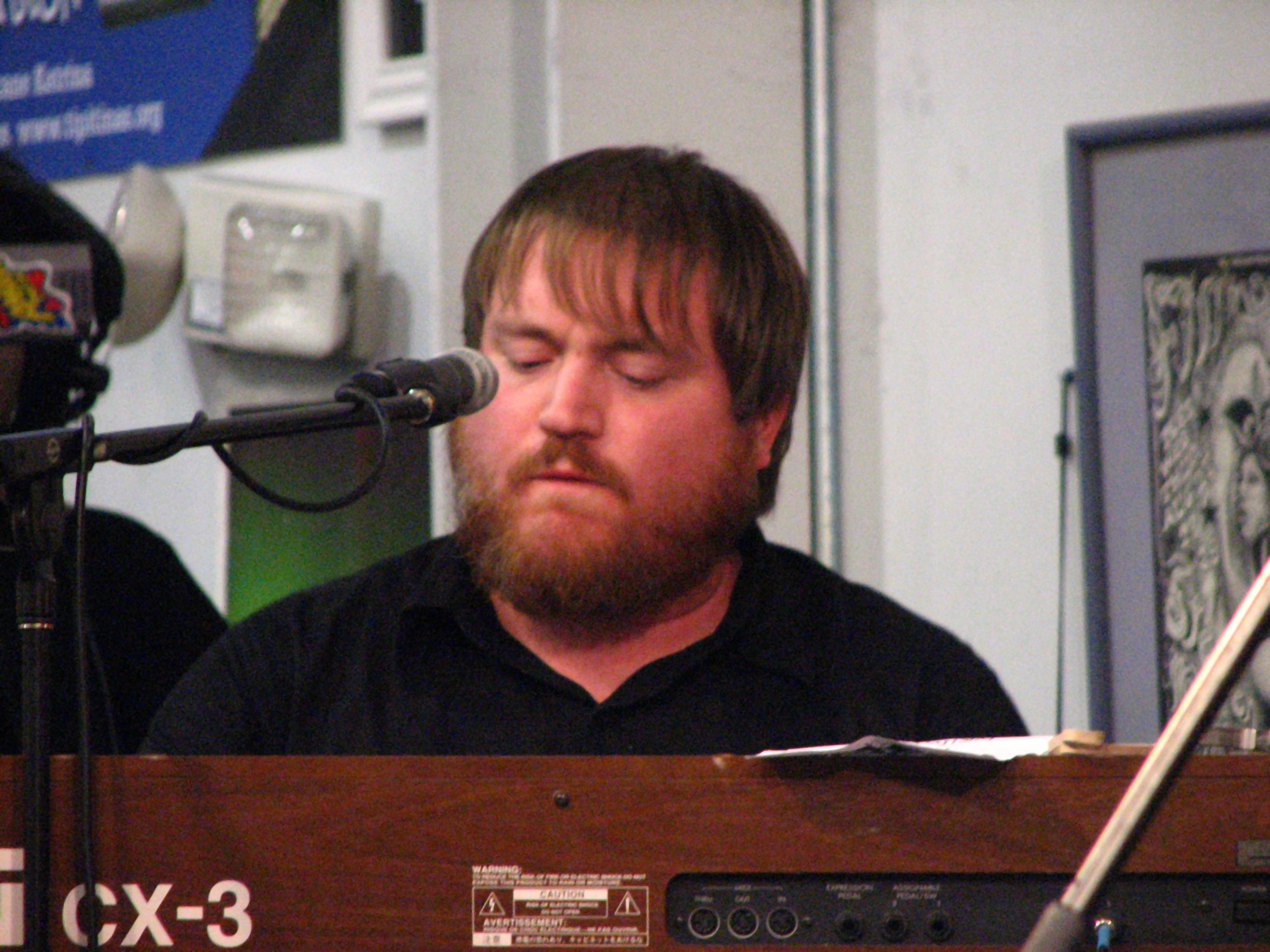 Ryan Monroe, keyboard player for Band of Horses plays at Amoeba Records in Los Angeles, October 10, 2007